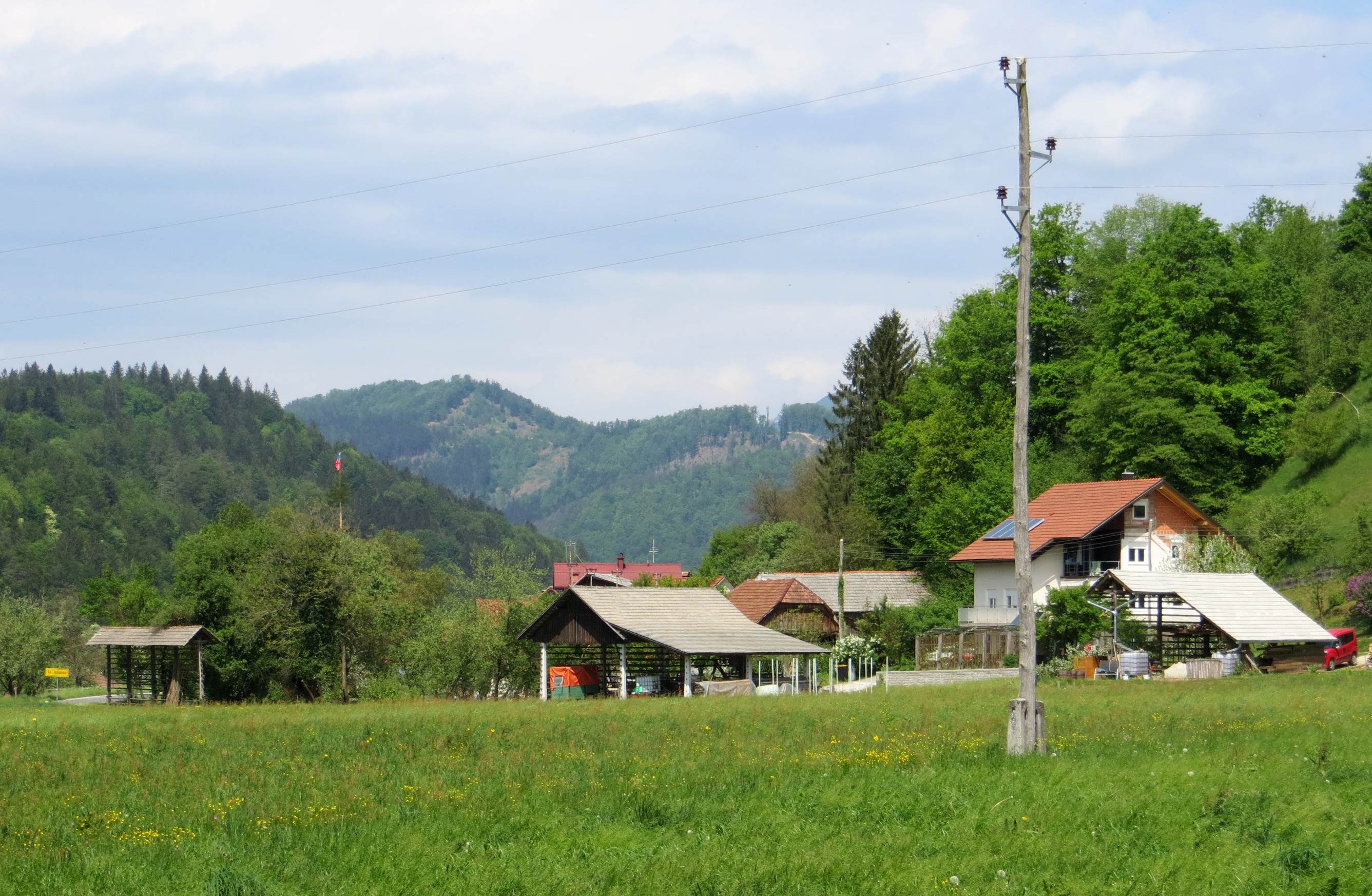 Spodnja Jablanica, Municipality of Šmartno pri Litiji, Slovenia